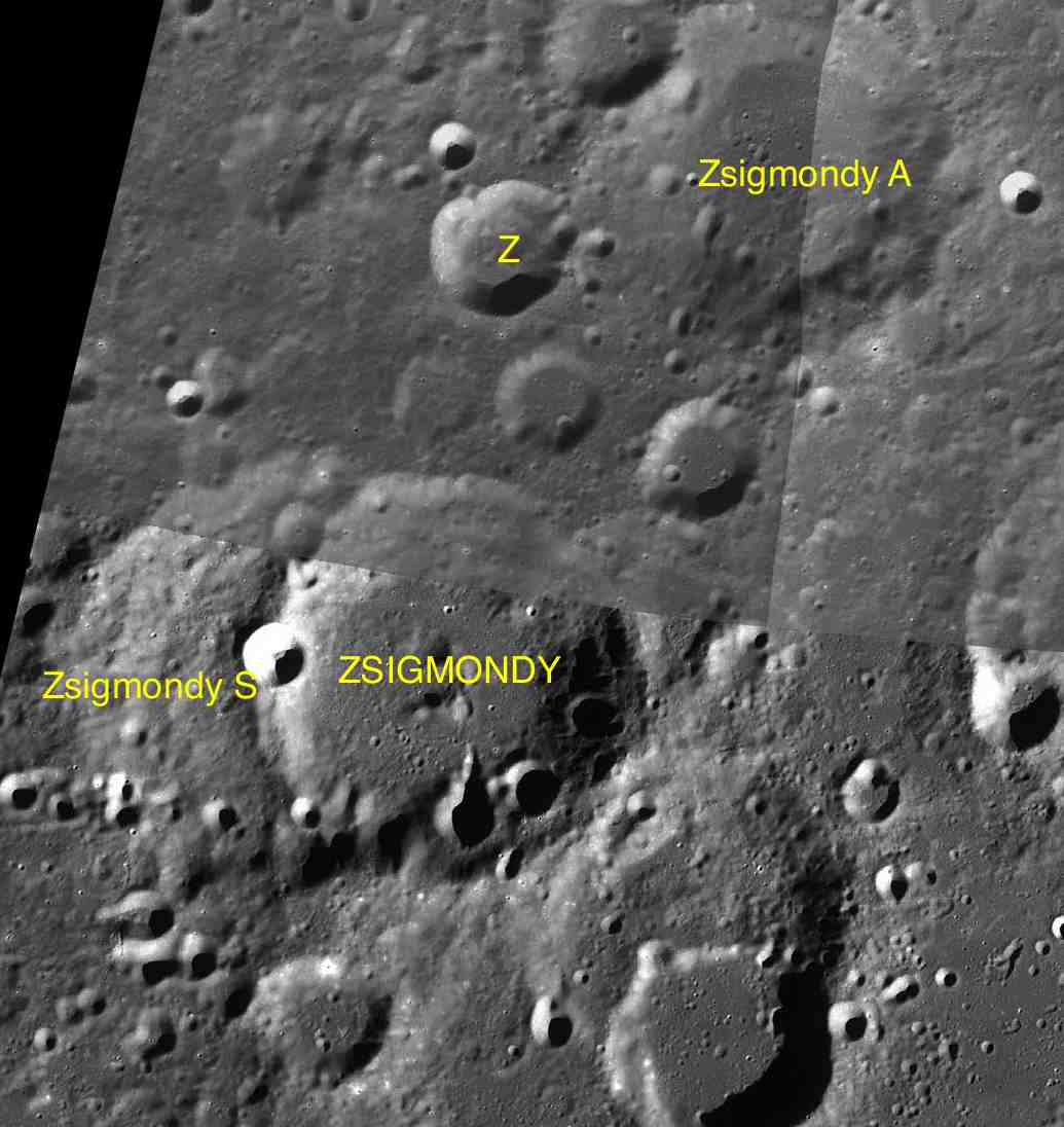 Part of the chart LAC-21 used for the presentation